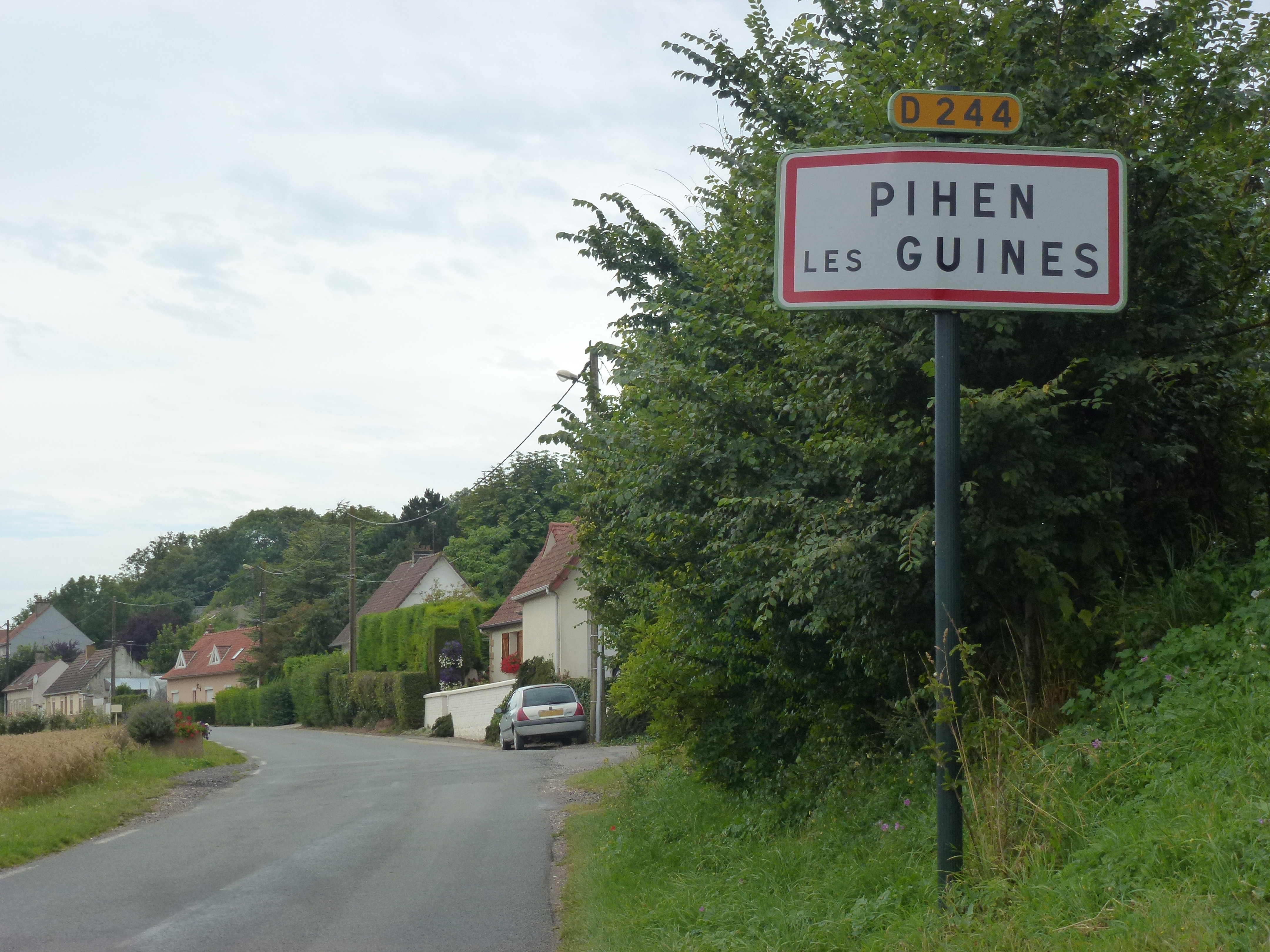 Pihen-lès-Guînes (Pas-de-Calais) city limit sign